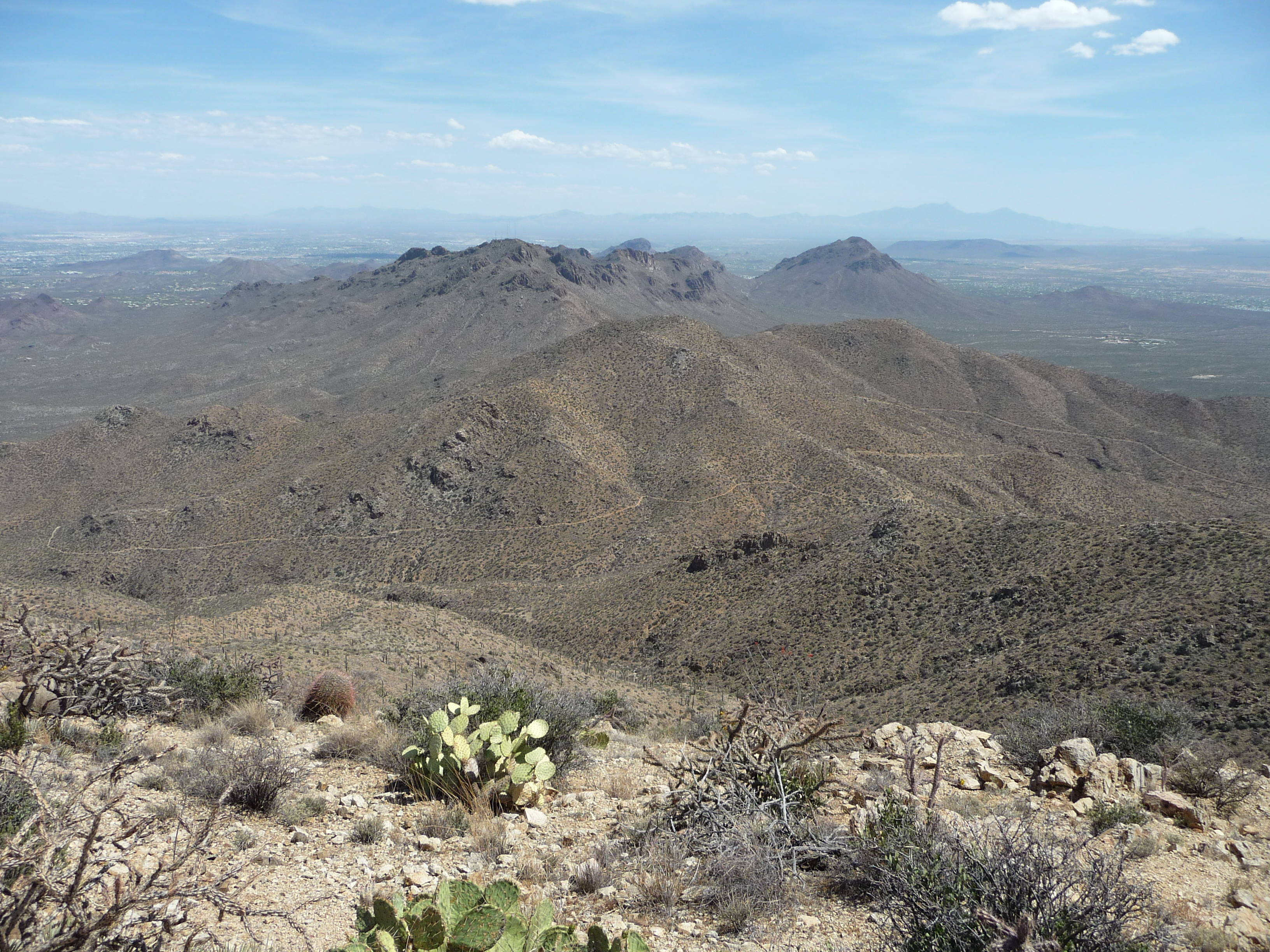 Tucson Mountains - View south from Wasson Peak; background right Old Tucson Studios; behind on the horizon the Santa Rita Mountains